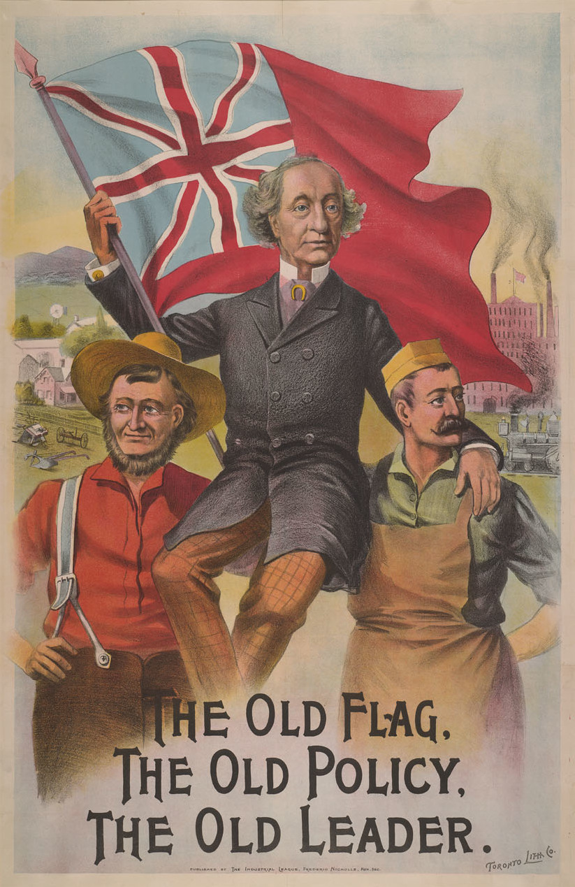 "The Old Flag - The Old Policy - The Old Leader". 1891 Canadian election campaign poster for Sir John A. Macdonald.